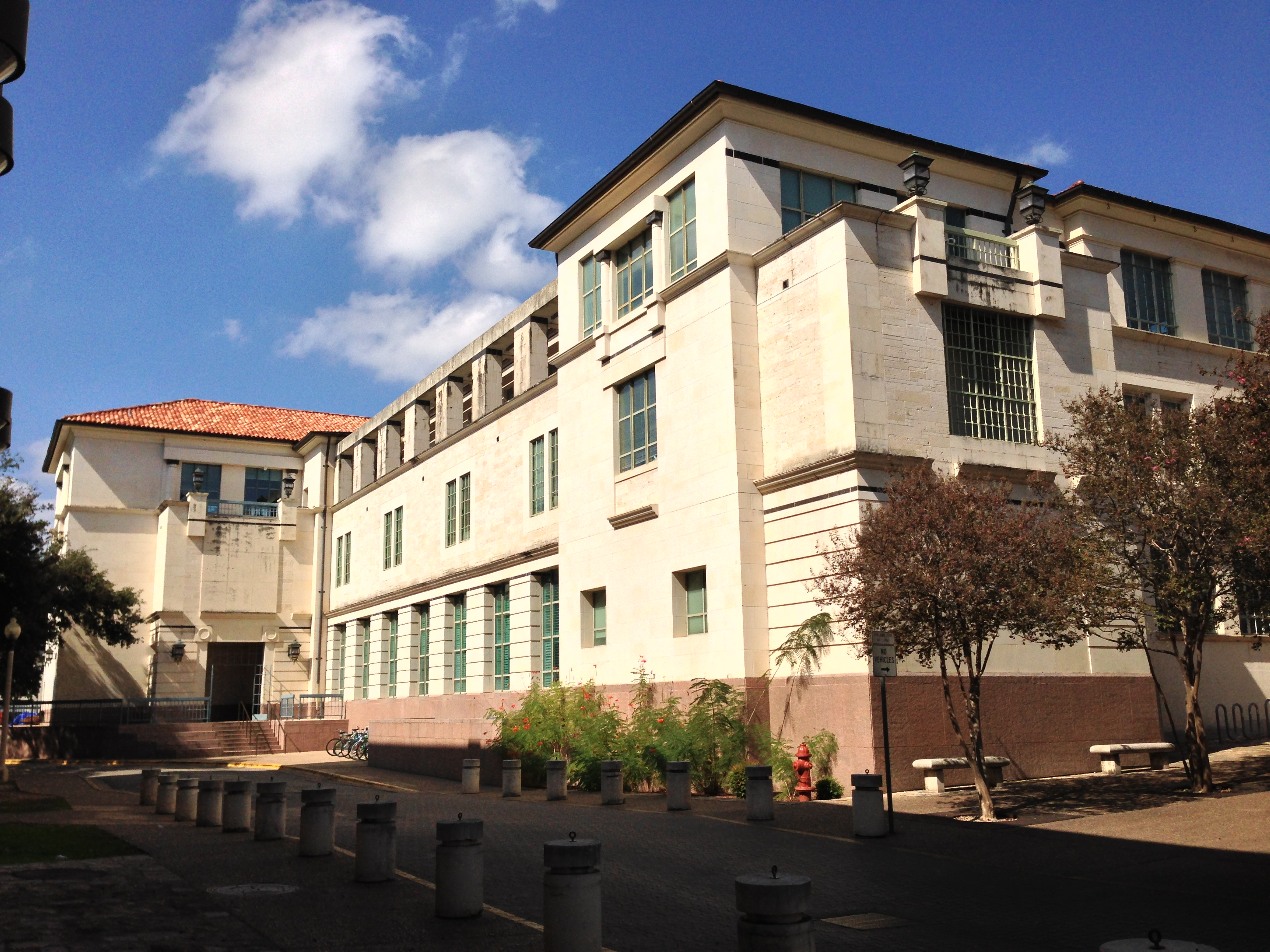 Photo taken from Inner Campus Drive